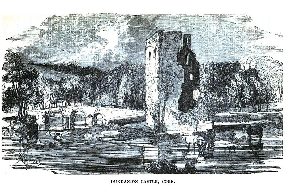 Engraving of Dundanion Castle in Blackrock Cork from the 1866 publication "How to spend a month in Ireland" by Sir Cusack Patrick Roney